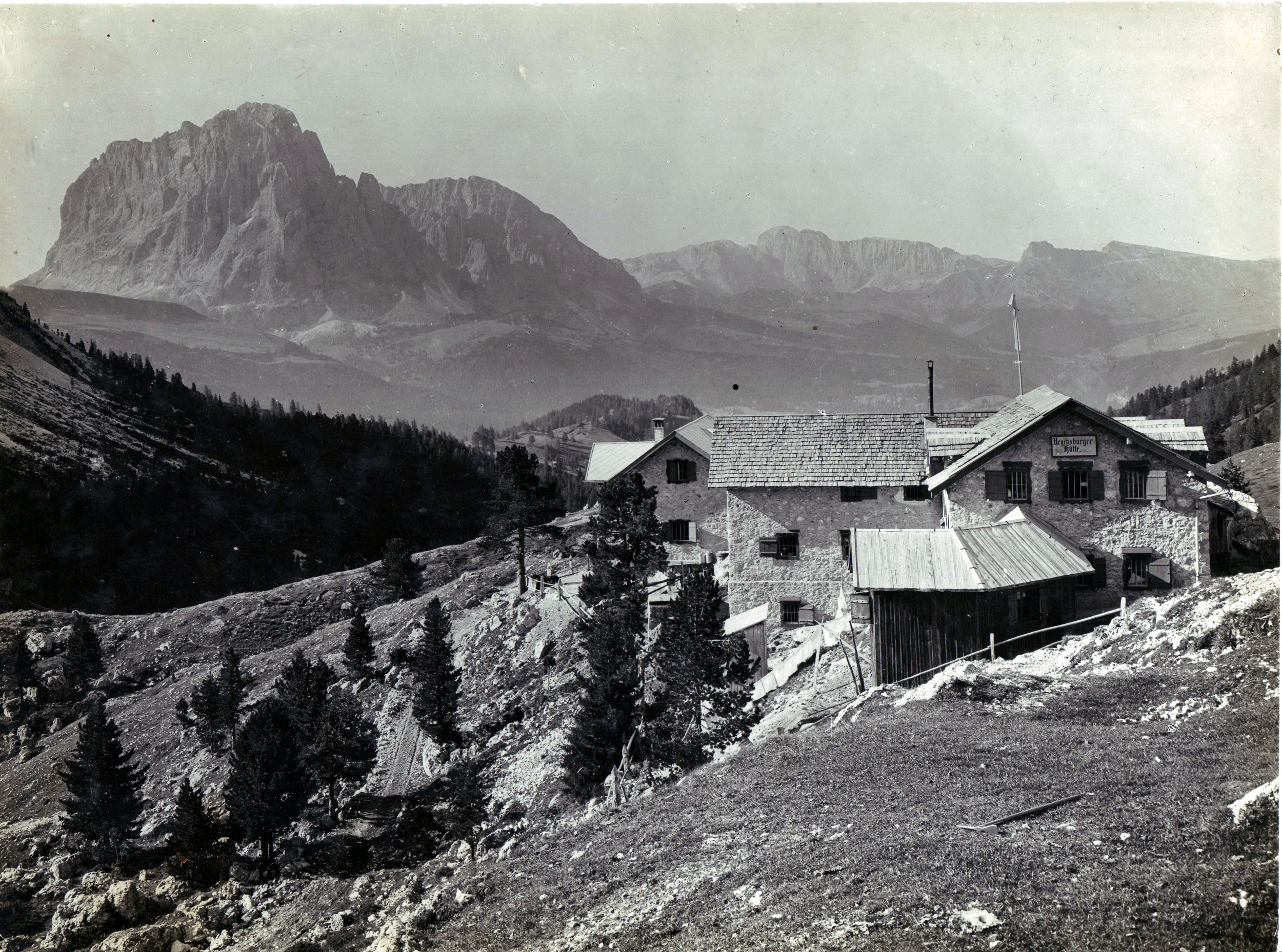 The Regensburger Hütte-Rifugio Firenze around 1900